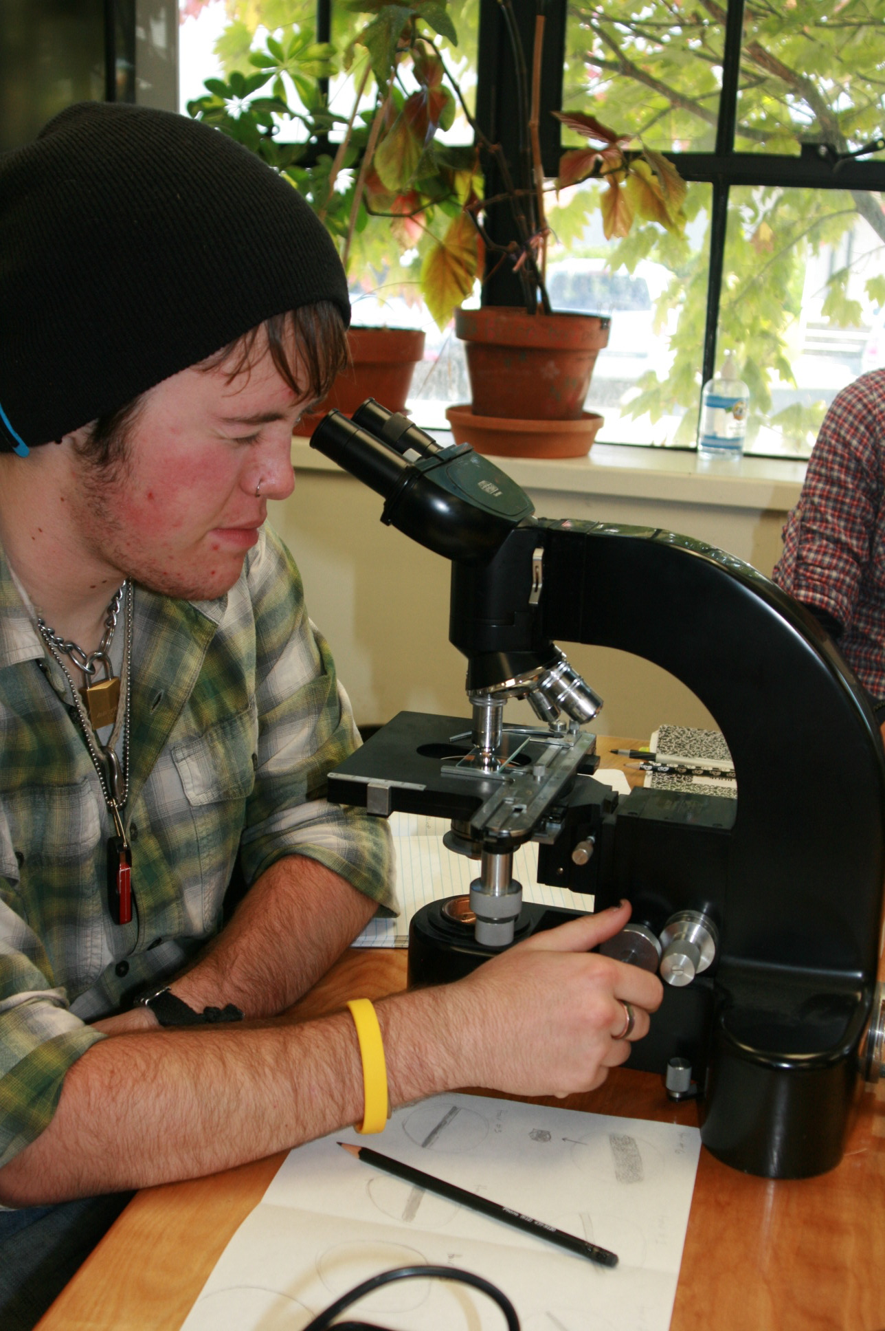 An Explorations Academy student uses a microscope in Forensics class.